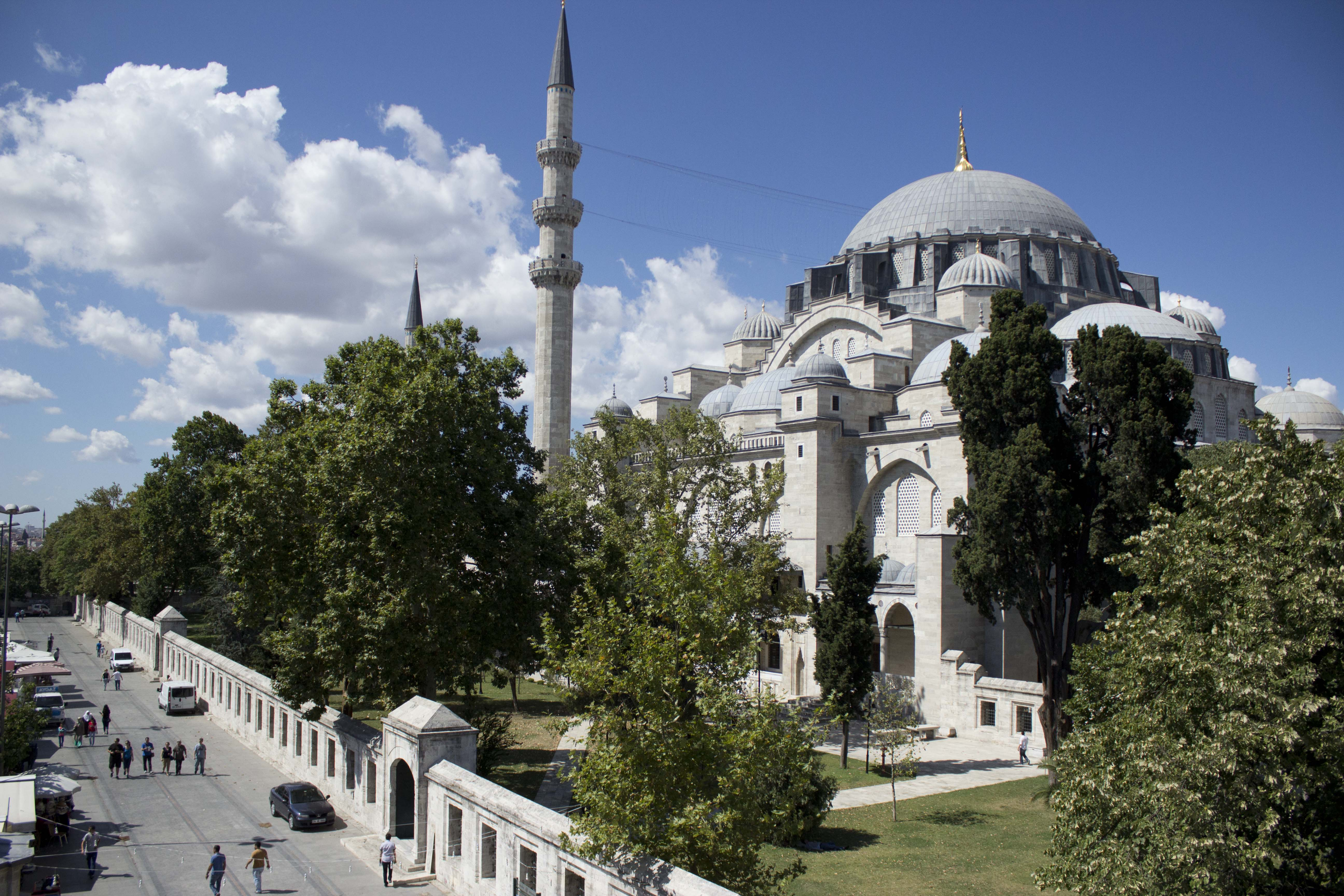 Süleymaniye Mosque as seen from Istanbul University Campus